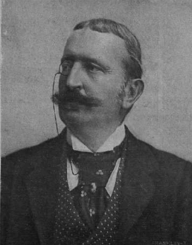 Portrait of János Asbóth (writer)